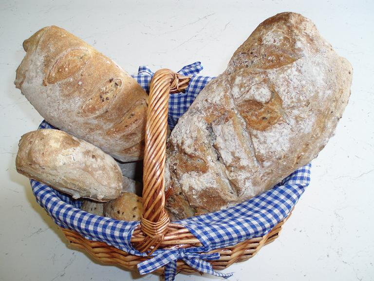 Bread in a basket